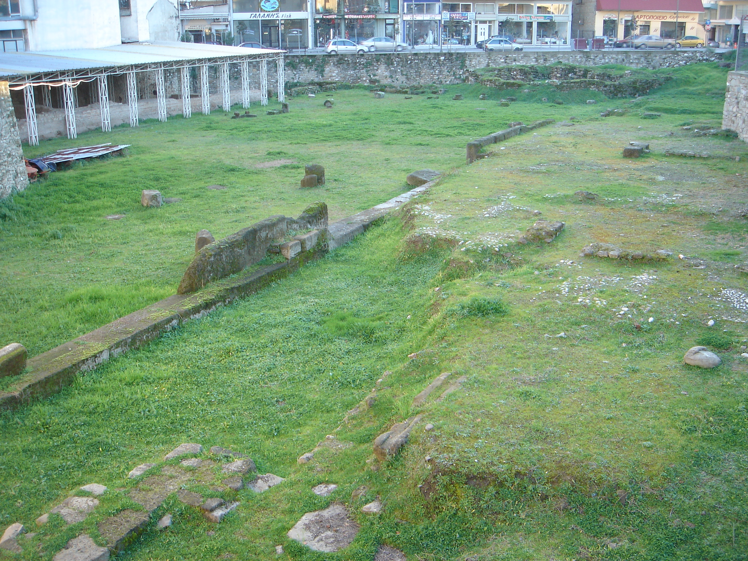 Asclepieio ruins in Trikala